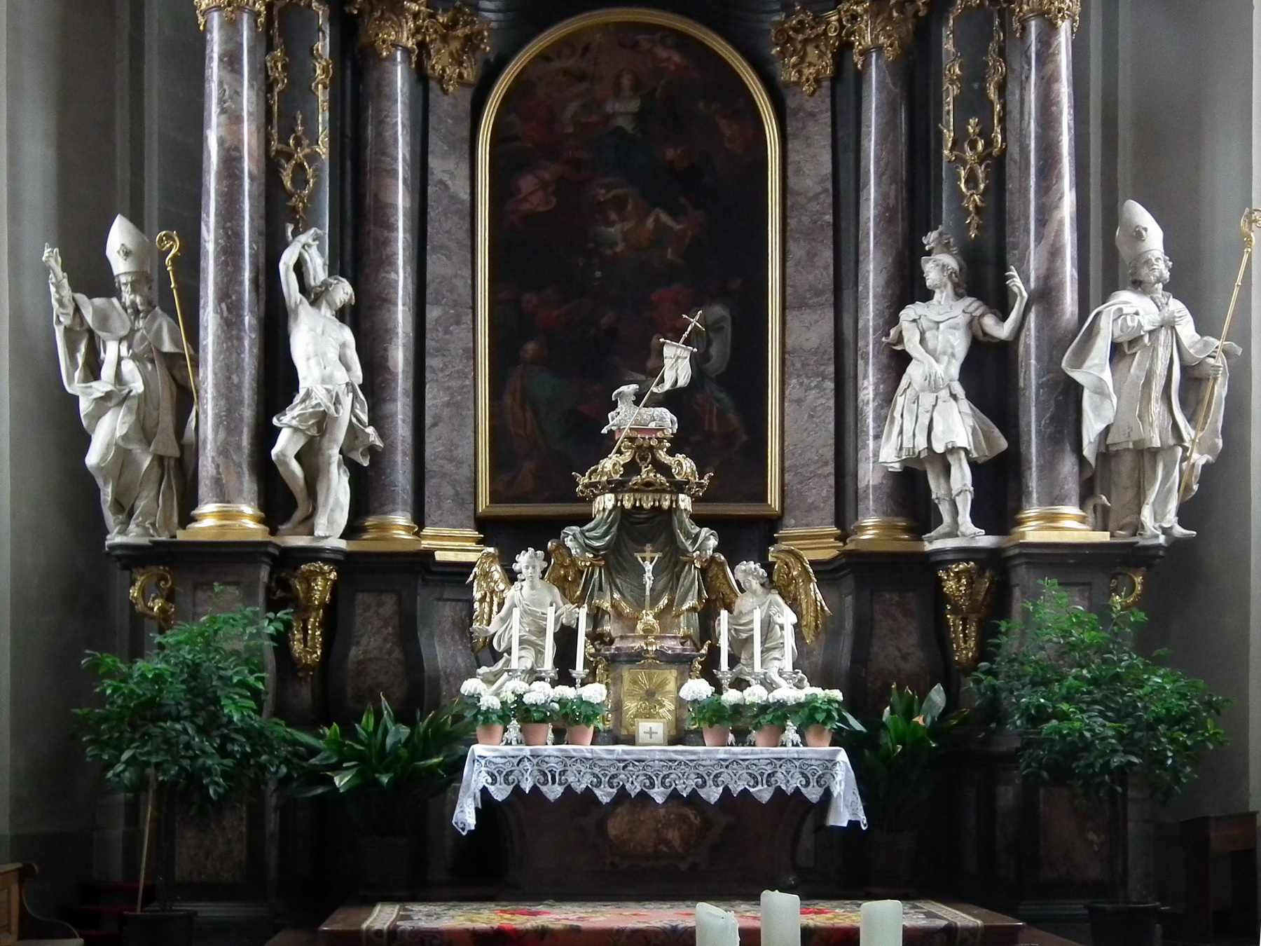 Church of St Gangulphus Native nameGangolfikircheLocationAmorbach, Lower Franconia, GermanyCoordinates49° 38′ 43.87″ N, 9° 13′ 12.47″ E